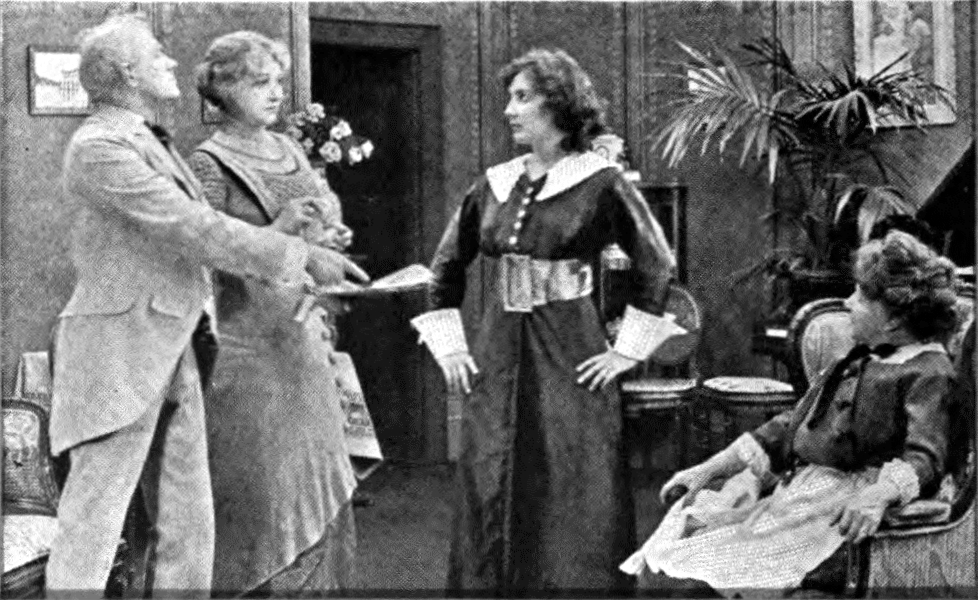 A scene from "The Perfect Truth" (1914), the first in the "Dolly of the Dailies" series, showing Dolly's father commanding her to stop her newspaper story and make a public apology.